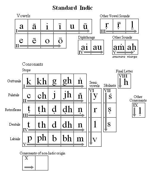 own drawing Drawing for the reedition of Bodufenvaluge Sidi's book "Divehi Akuru" by Xavier Romero-Frias.